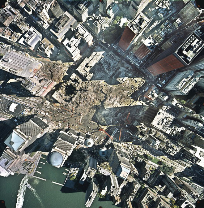 Top view of Ground zero - ex-World Trade Center